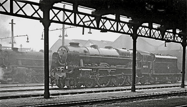 View inside the Shed, with Rebuilt 'Royal Scot' 7P 4-6-0 No. 46153 'The Royal Dragoon' waiting outside to go to Manchester Central to work an express to London St Pancras. It was the principal Manchester Depot of the Cheshire Lines (CLC)- with mainly LNER locomotives, and for the ex-Midland passenger trains from Central. It was coded 9E (Manchester Longsight District) by BR and had a large and mixed allocation of 72 in 1954, comprising:- 10 4-6-0s (LMS), 14 (8 LMS, 6 LNE) 4-4-0s, 4 2-8-0s (LMS), 22 0-6-0s (4 LMS, 18 LNE), 6 2-6-4Ts (LMS), 2 2-6-2Ts (LMS), 11 0-6-2TS (LNE) and 3 0-6-0Ts (LNE). The Depot closed on 4/3/68 and became a Freightliner Depot.